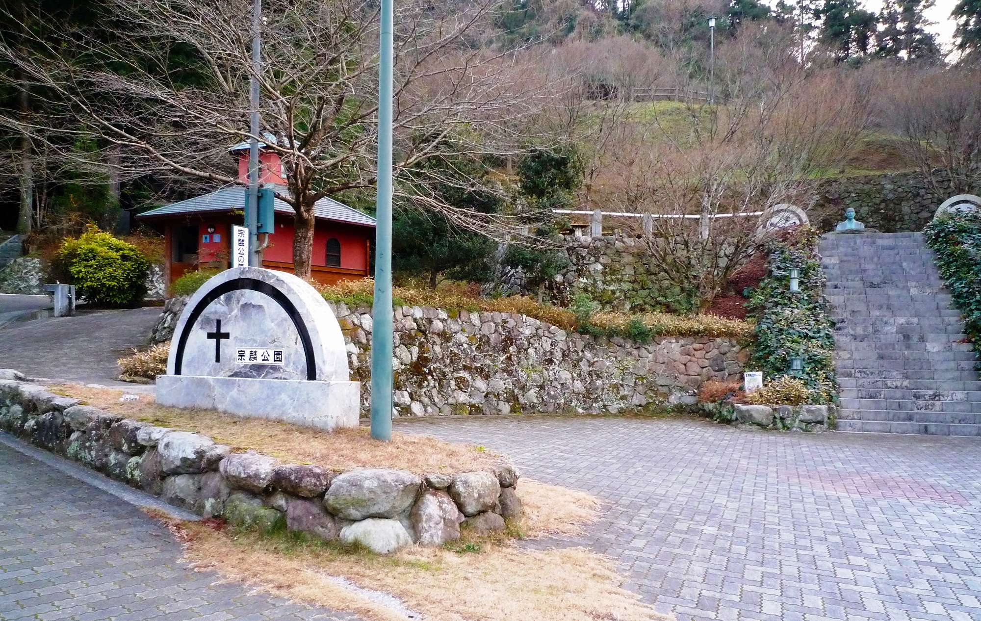 Sorin Park